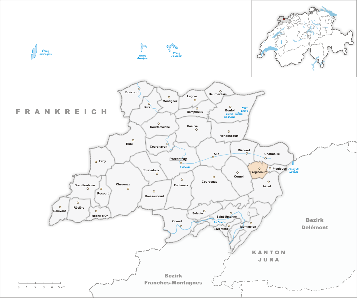 Municipality Fregiécourt